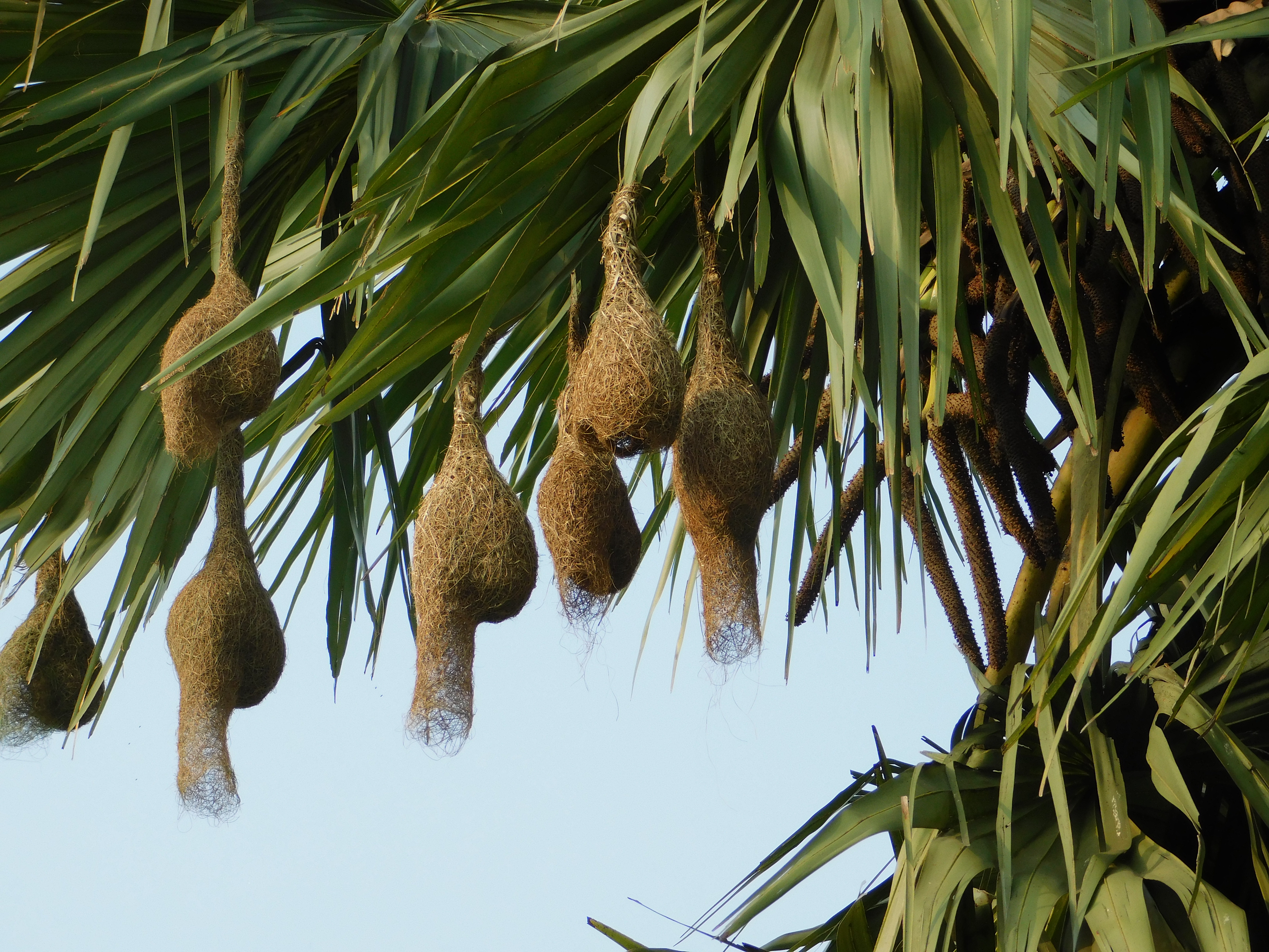 Nests of Weaver birds in Palmyra Palm tree